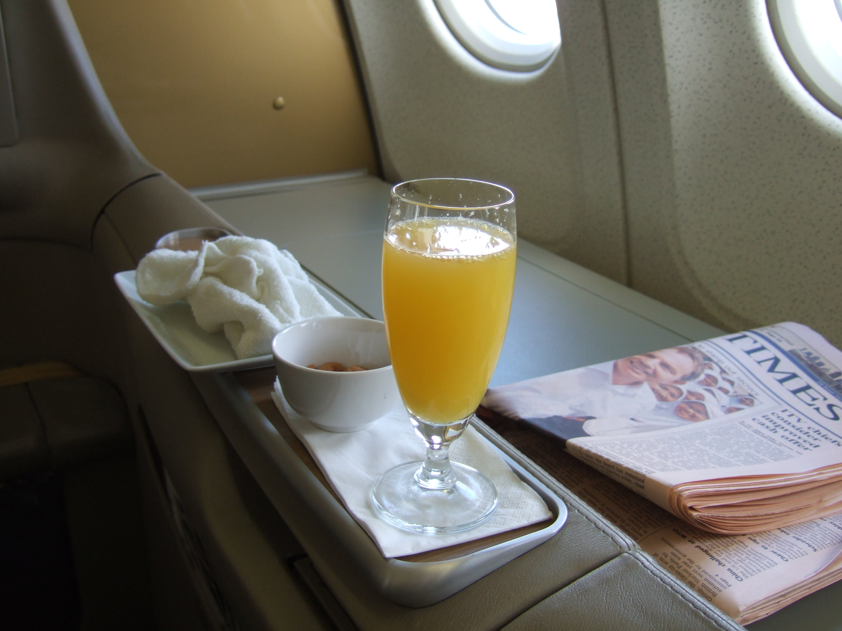 Gulf Air First class